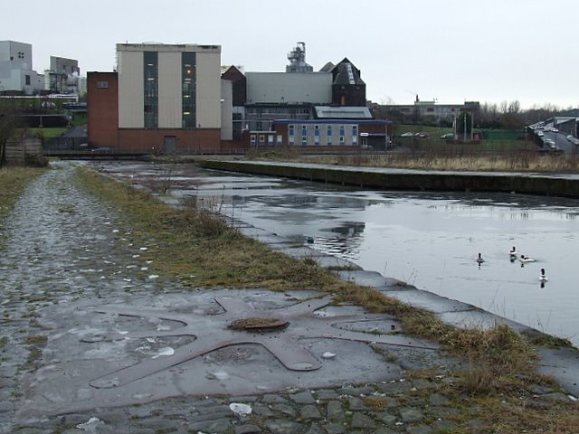 Port Dundas Part of the basin complex on the disused Monklands Canal at North Canal Bank Street. The Diageo Port Dundas distillery is in the background. There are plans to re-connect the basin to the adjacent Glasgow branch of the Forth and Clyde canal. See this for more details.